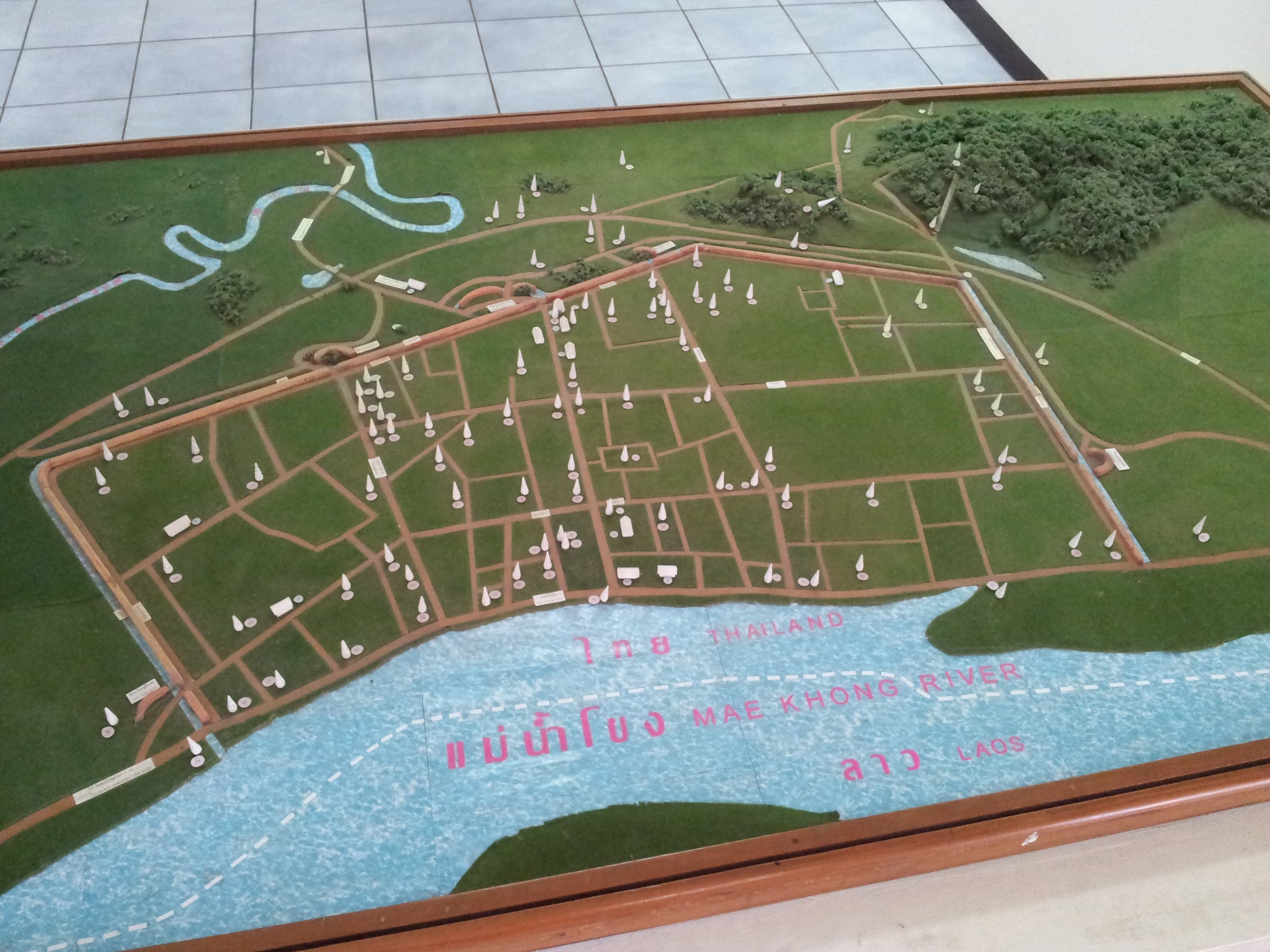 The city layout at the local museum that shows the locations of the temples in Chiang Saen.